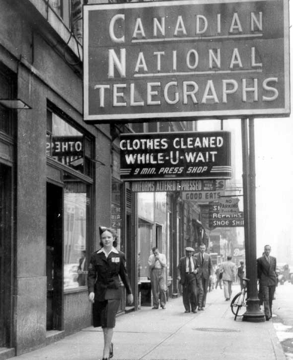 Exterior of Canadian National Telegraph Office, 347 Bay Street, Toronto, Canada.